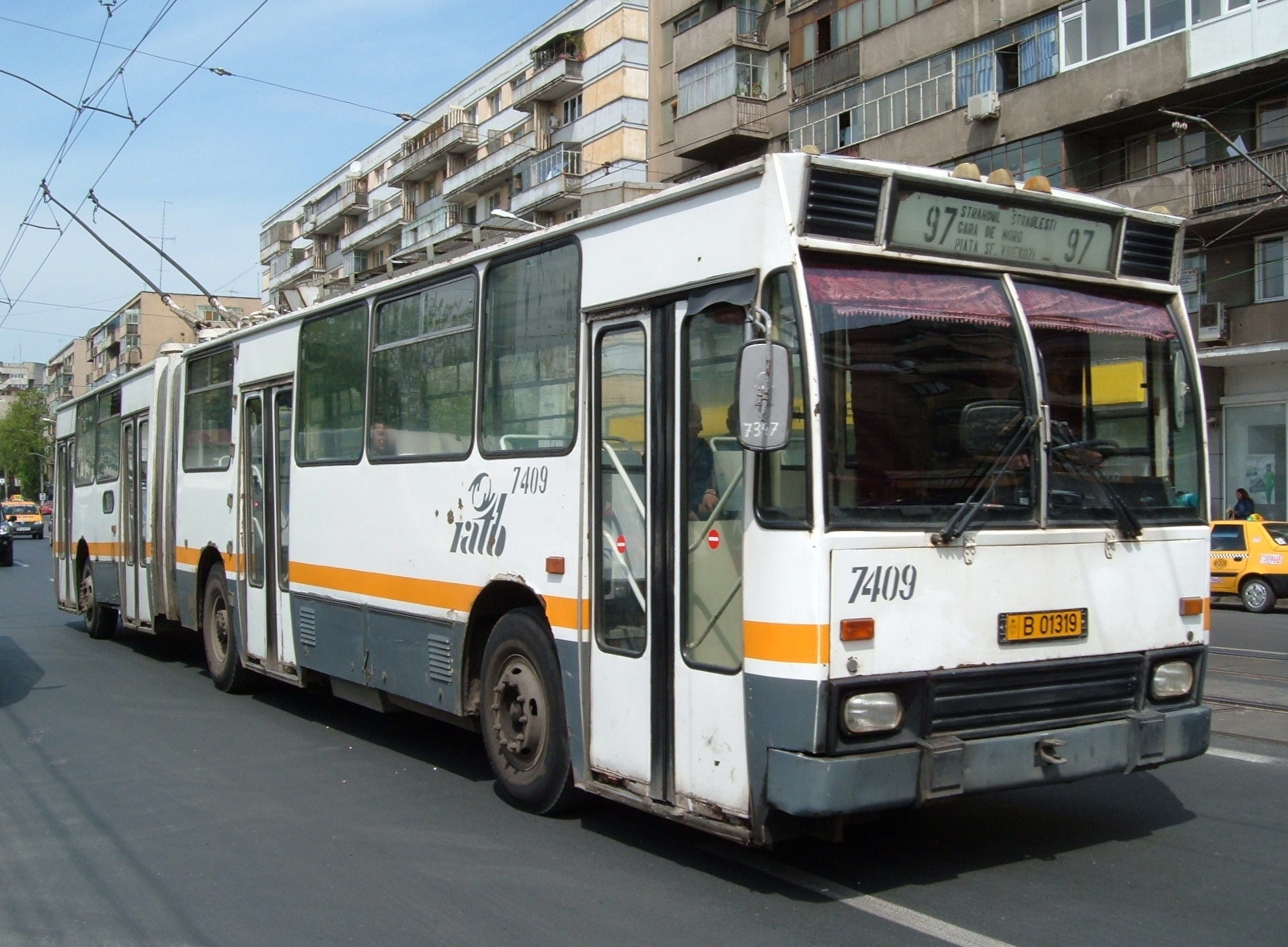 Bucharest trolleybus 7409 is a 1991 Rocar DAC 217E trolleybus. It is shown in service on route 97. It was withdrawn in mid-2007 and scrapped in September, and the last Rocar/DAC trolleybuses in use on the Bucharest system were withdrawn in October 2007.